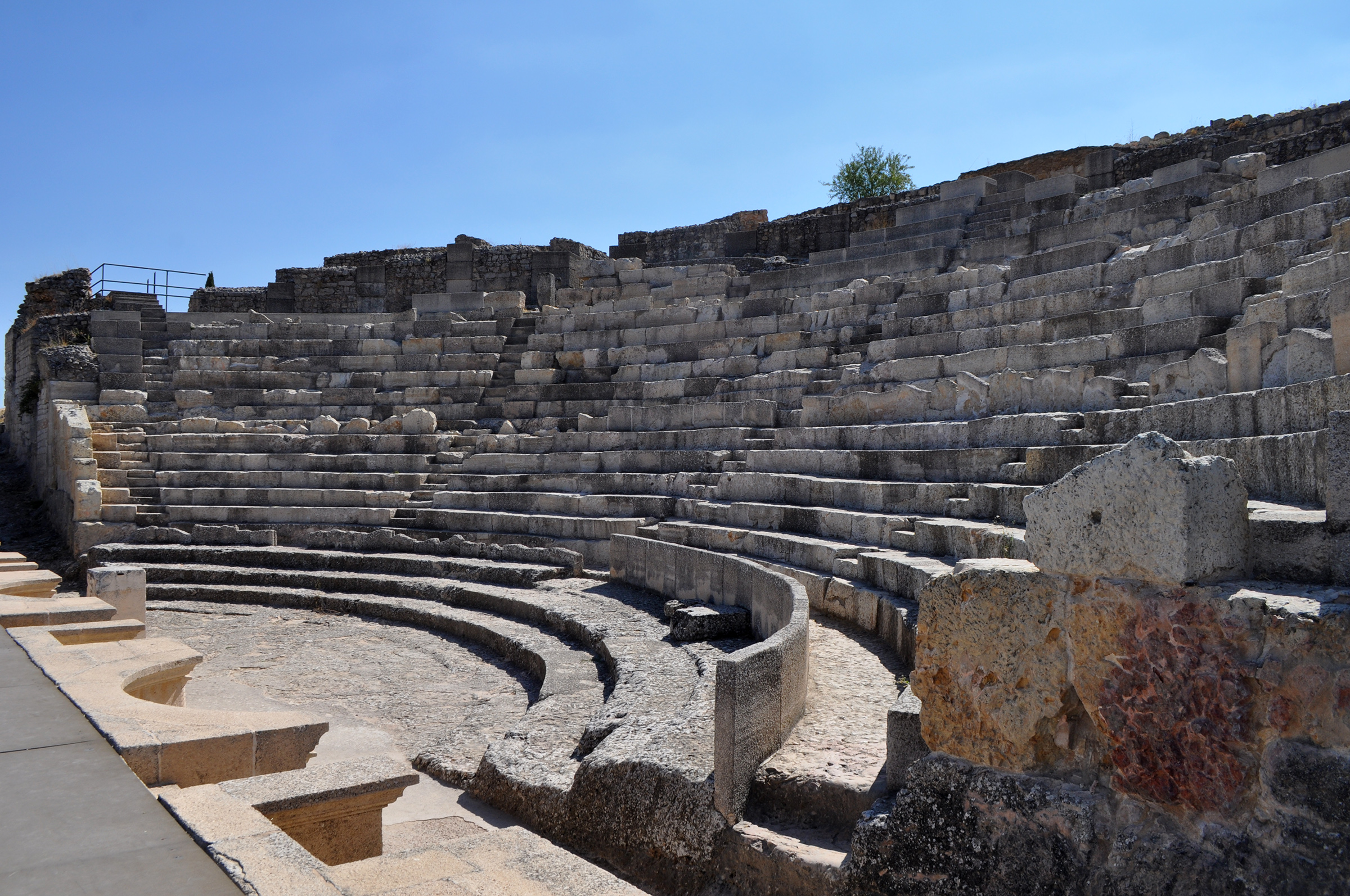 Segobriga theater